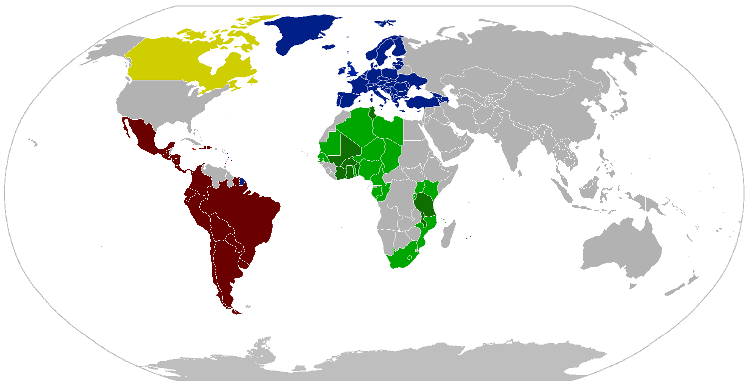 States that recognize regional courts of human rights jurisdiction. African Court on Human and Peoples' Rights Inter-American Court of Human Rights European Court of Human Rights Canadian Human Rights Tribunal